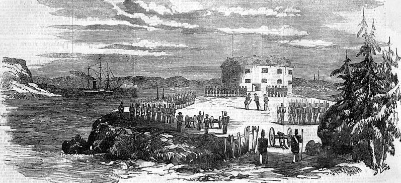 Surrender of the Russian troops by the Prästötornet tower in 16 August 1854.